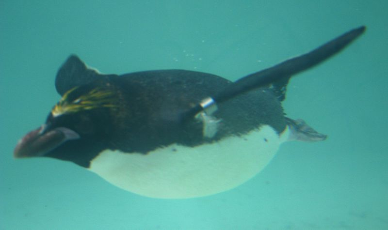 Macaroni Penguin (Eudyptes chrysolophus) swimming underwater at Twycross Zoo, England.